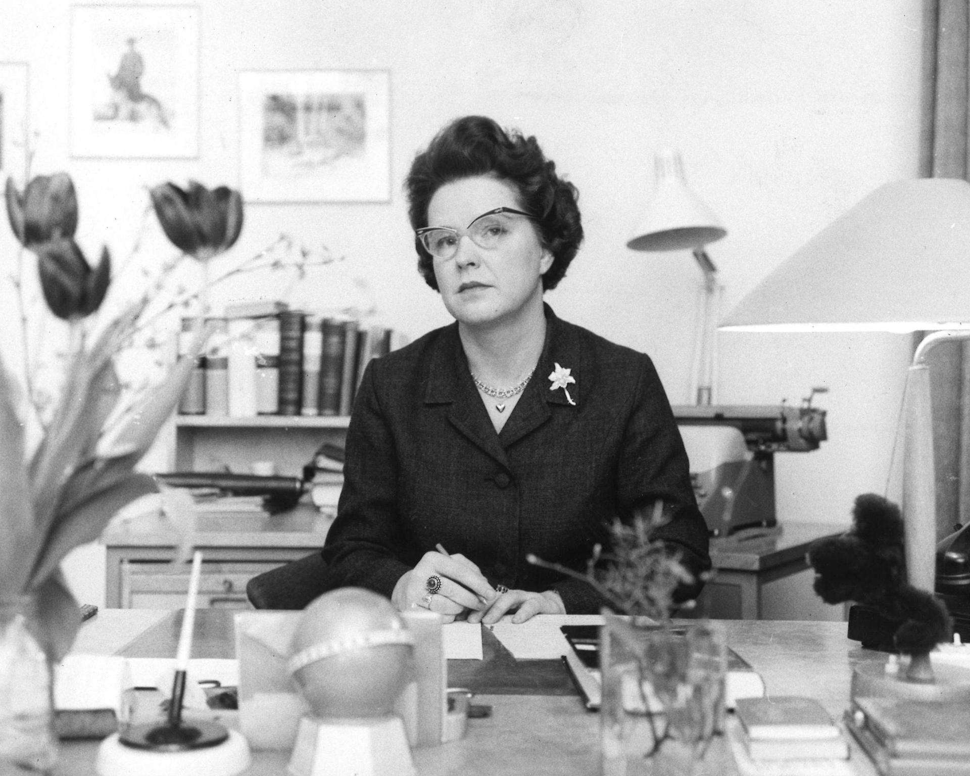 Photograph of the Finnish lawyer Eila Kännö (1921–2009).